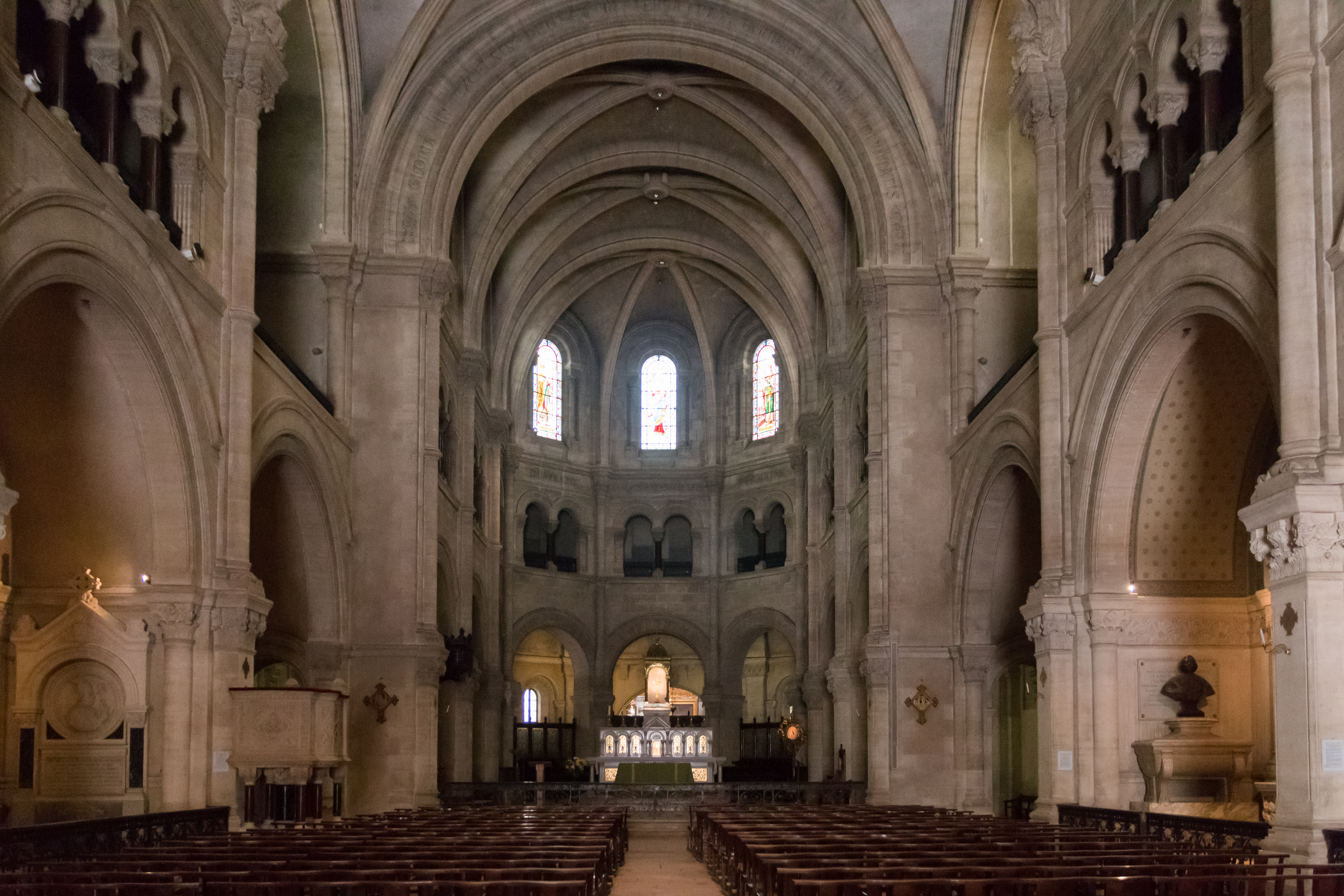 {Nave of the Cathédrale Notre-Dame et Saint Castor of Nîmes